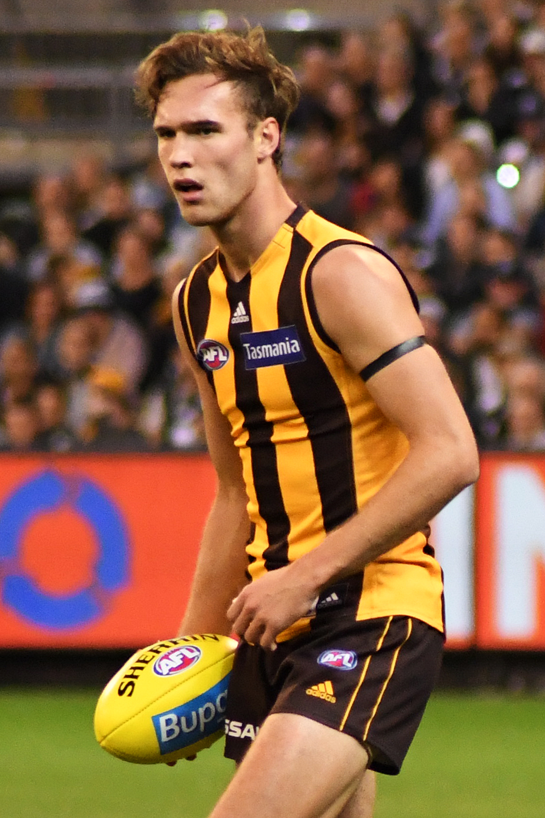 Jack Scrimshaw of Hawthorn during the 2019 AFL round 5 match between Hawthorn and Geelong at the Melbourne Cricket Ground on Monday, 22 April 2019 in Melbourne, Victoria.